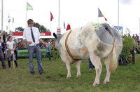 Belgian blue-white at its best. Volka of Daisel (owner Goddeeris, Diksmuide) wins the 20th national prize in Libramont, 2007.